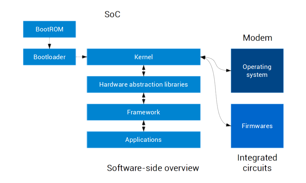 Schematics of a smartphone's internals